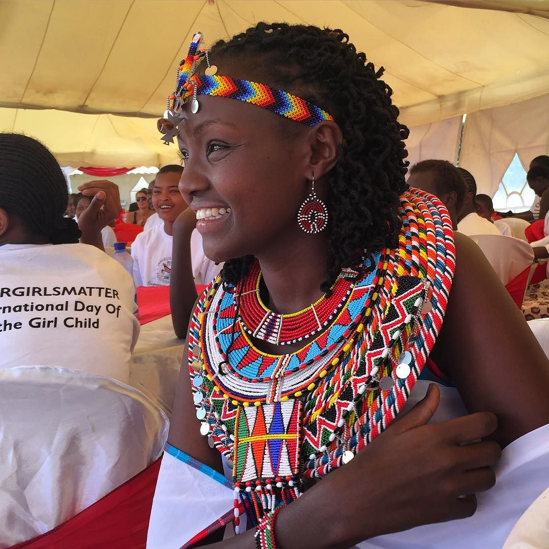 Josephine Kulea of Samburu Girls Foundation - At the opening of the school